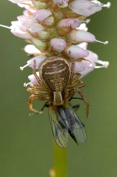 female Xysticus ulmi with prey, from Commanster, Belgian High Ardennes .